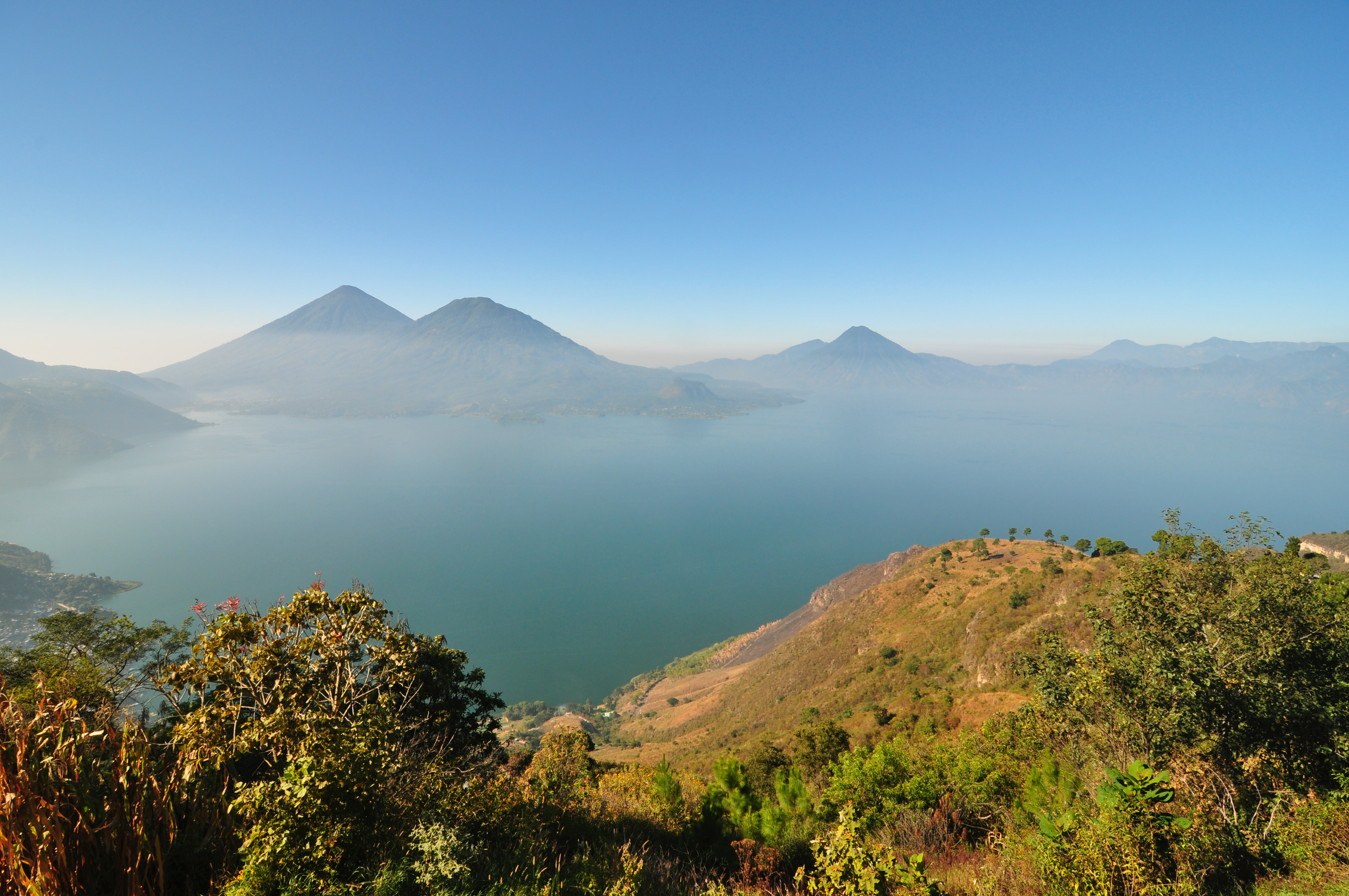 Lago de Atitlán Lake Atitlan Guatemala 2009 panorama